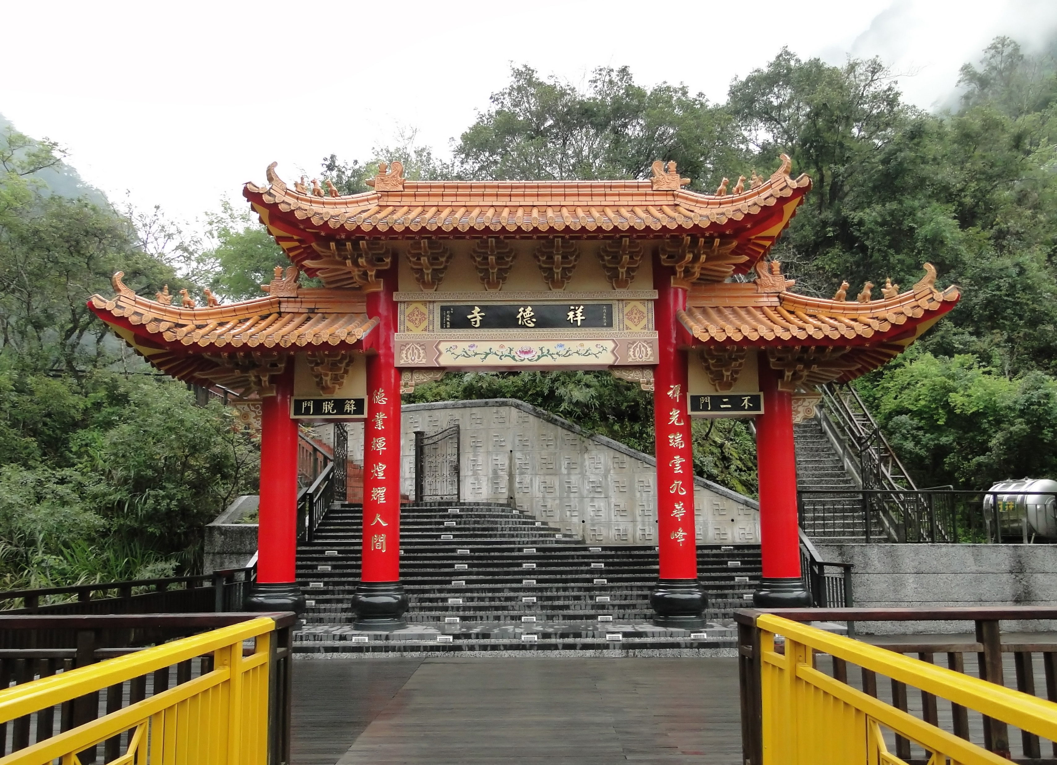 Entrance of Hsiang-Te Temple, Tiansiang, Taiwan